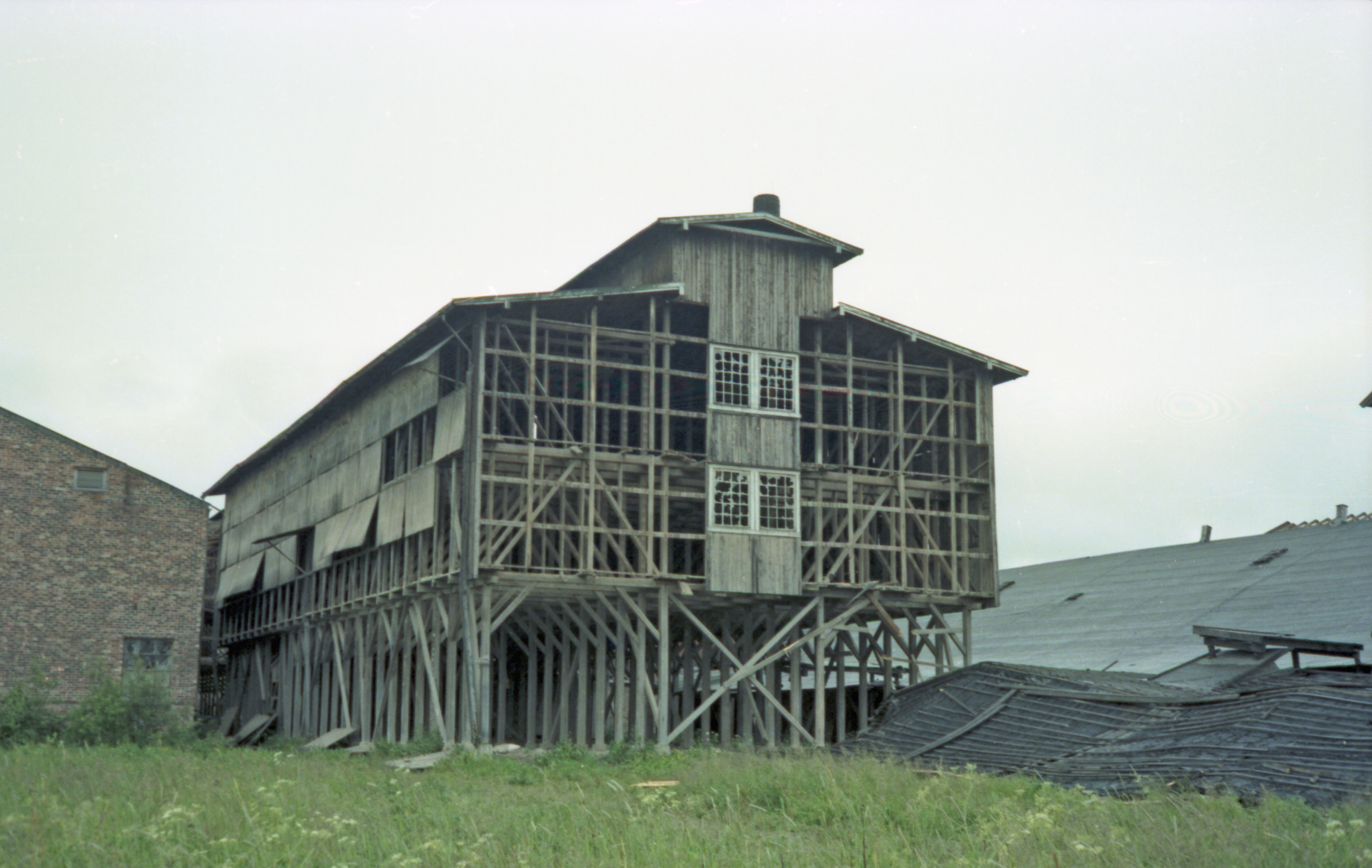 Format: 35 mm farge negativ Film: Kodak Safety Film 5035 Dato / Date: Juli 1979 Fotograf / Photographer: Ukjent Sted / Place: Tunga, Trondheim WikiStrinda: Strinden Teglverk Wikipedia: Strinden Teglverk Eier / Owner Institution: Trondheim byarkiv, The Municipal Archives of Trondheim Arkivreferanse / Archive reference: Tor.H43.P1.F5765, film 33 Merknad: Fra Byantikvarens negativsamling.